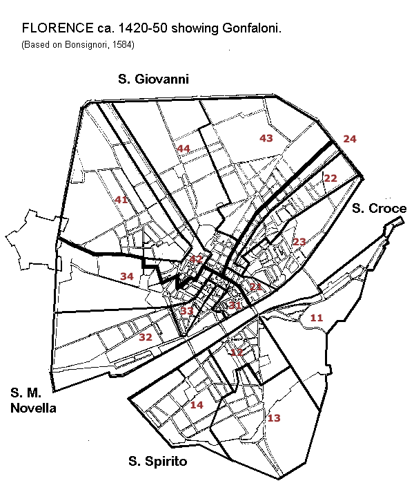 Districts of Florence